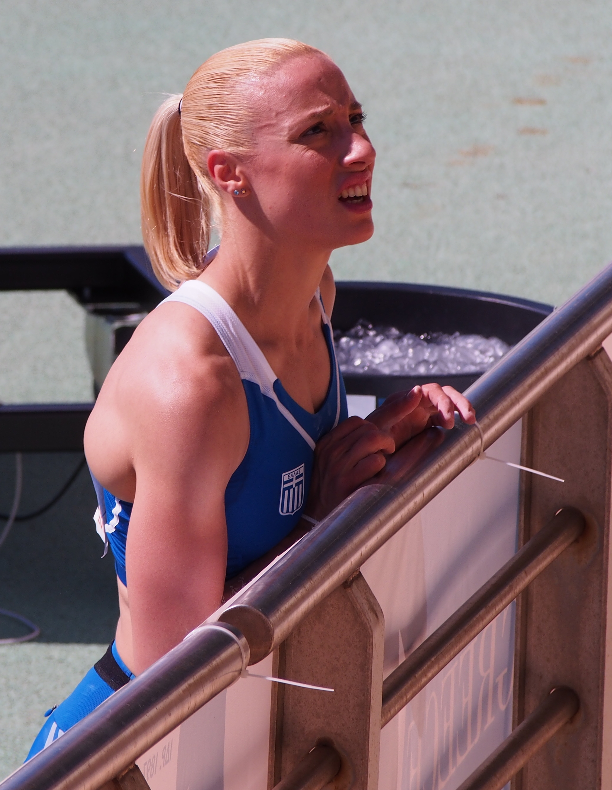 Nikol Kyriakopoulou, representing the greek team at women's pole vaulting, winner of the event, talking with her coach.